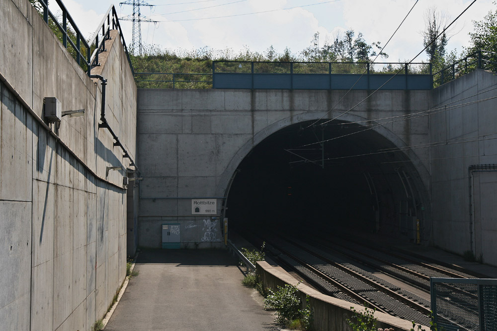 North portal of the Rottbitze Tunnel